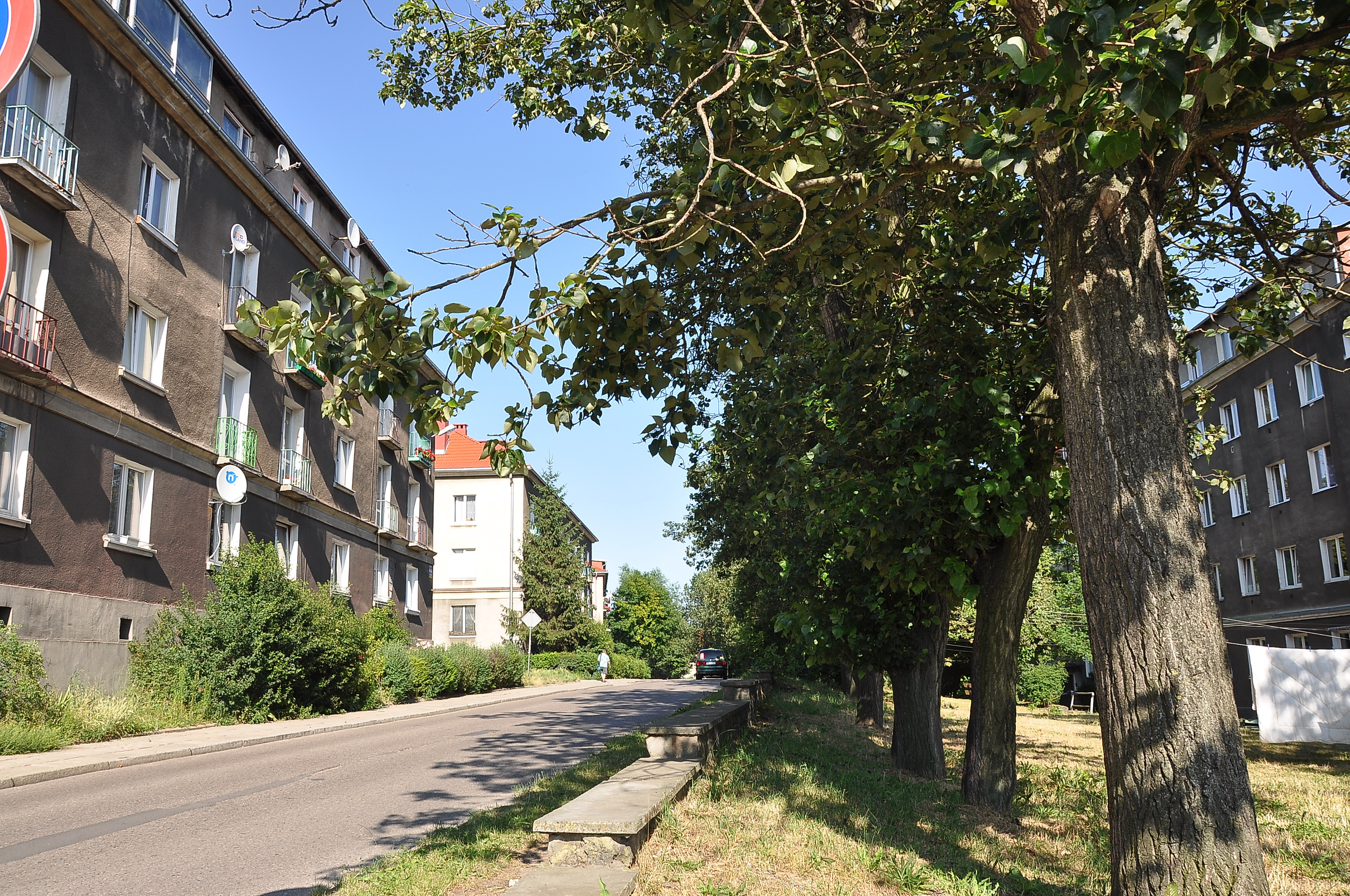 Zakopianska Street at Siedlce district of Gdansk in Poland.